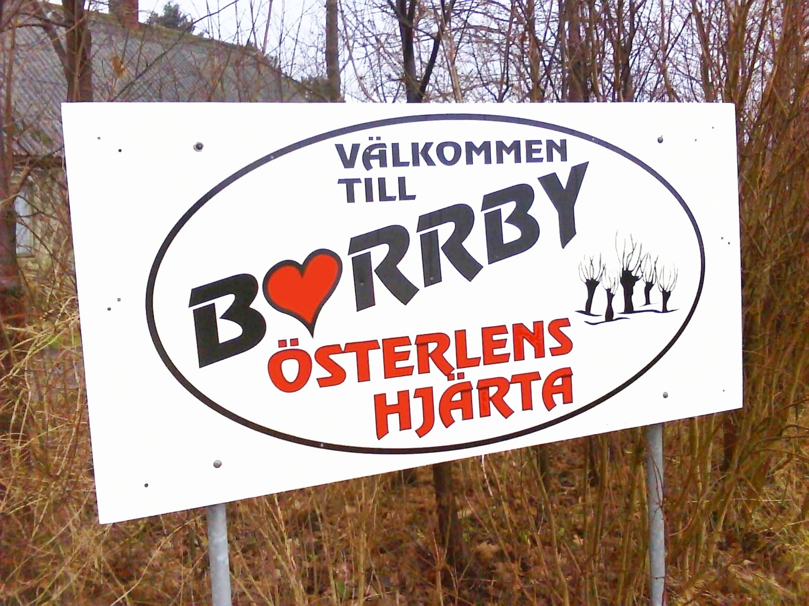 A sign: "Welcome to Borrby - the Heart of Österlen"